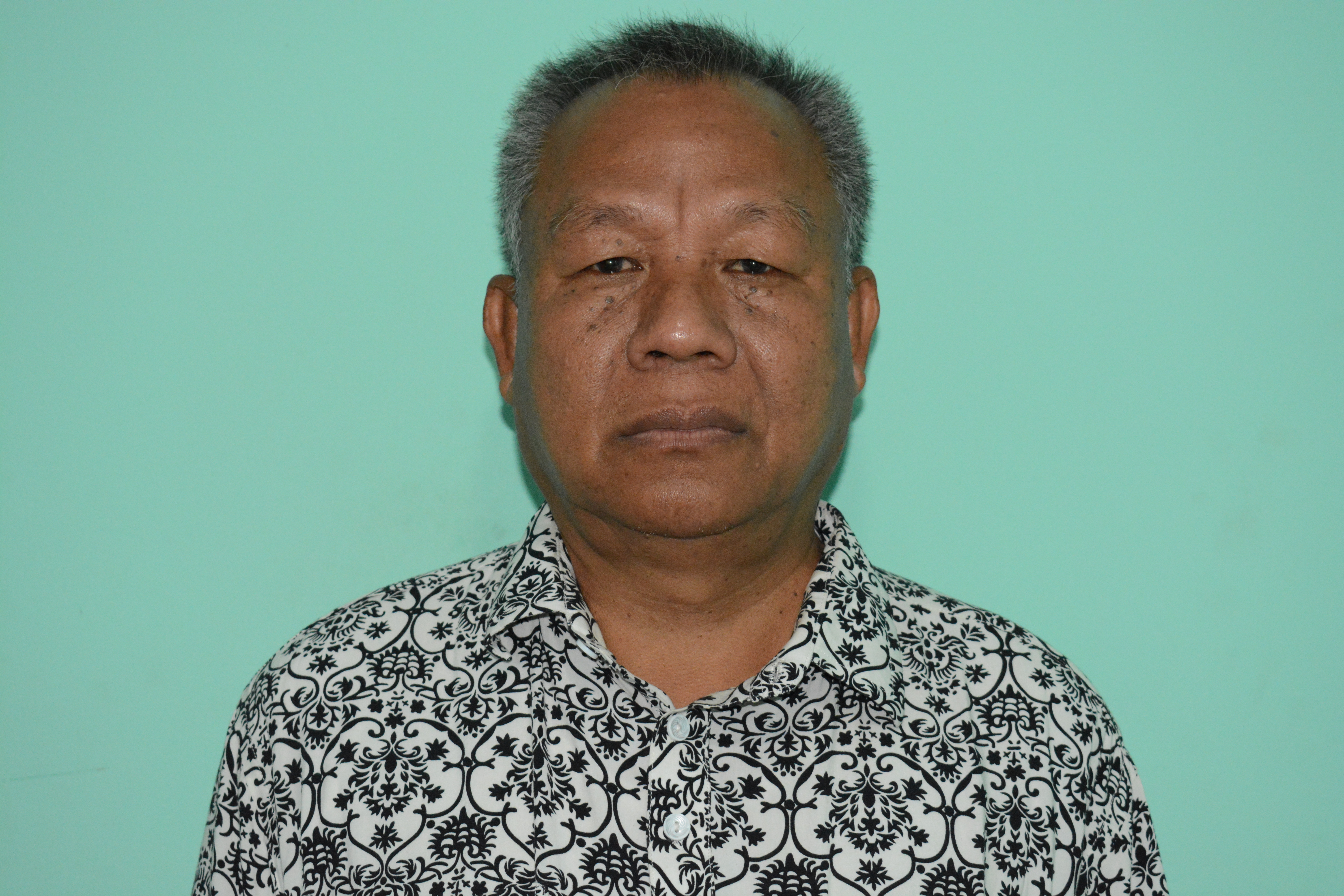 Prabangshu Tripura